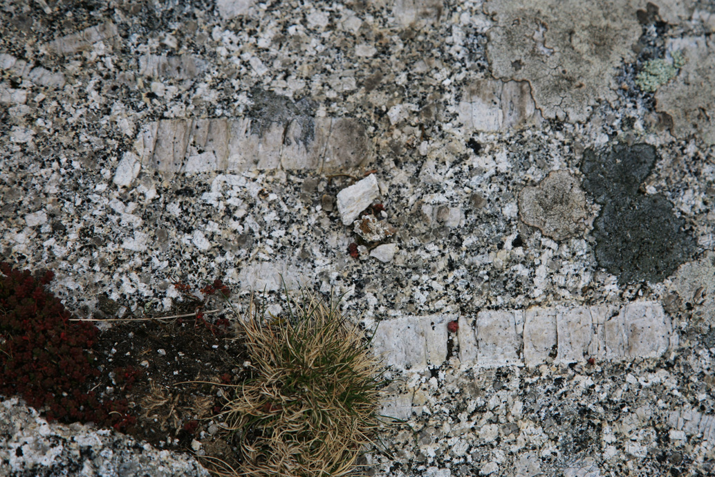 Picture of Dartmoor granite with large feldspar megacrysts